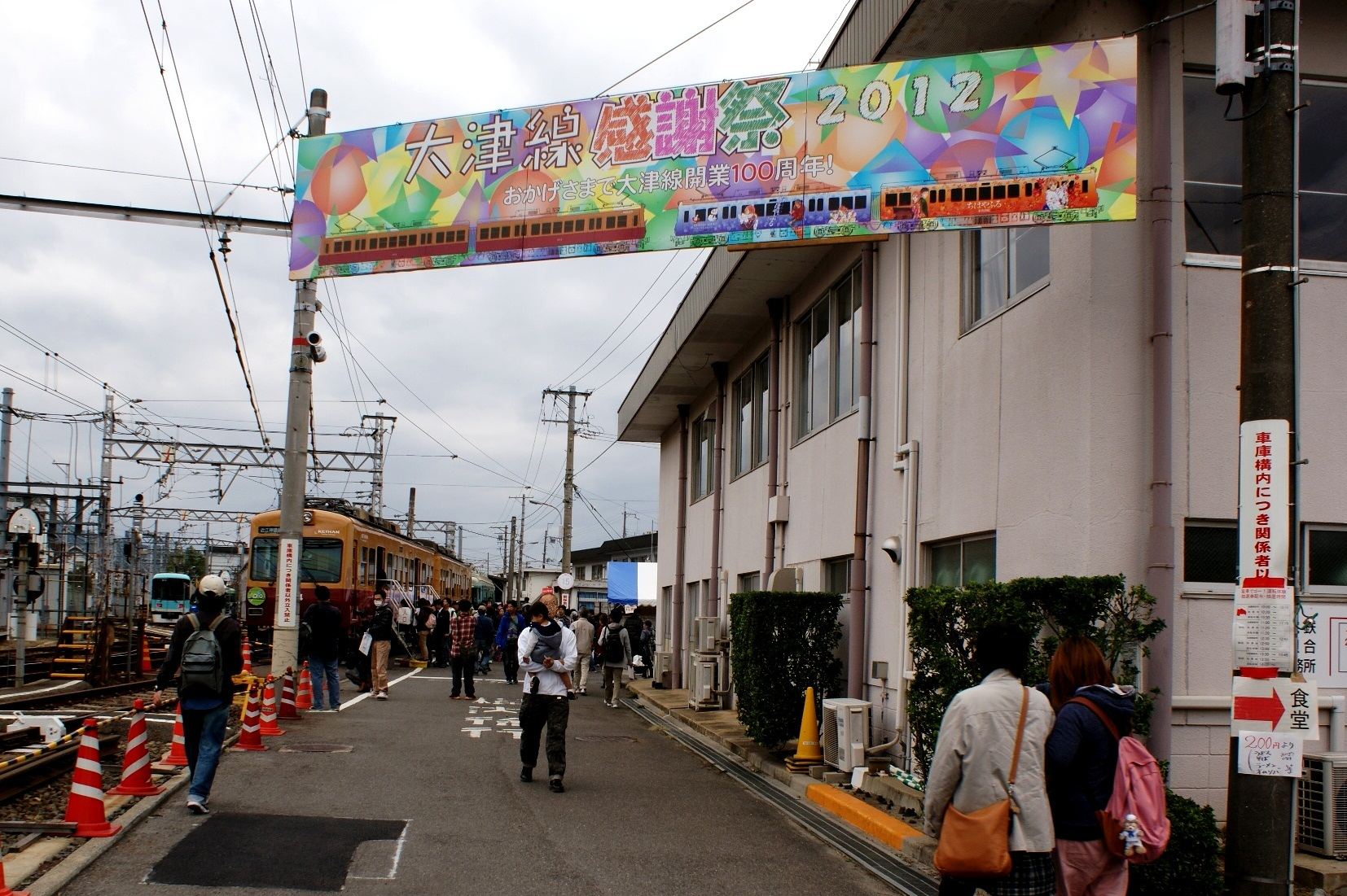 The entrance of Otsu line Thanksgiving festival